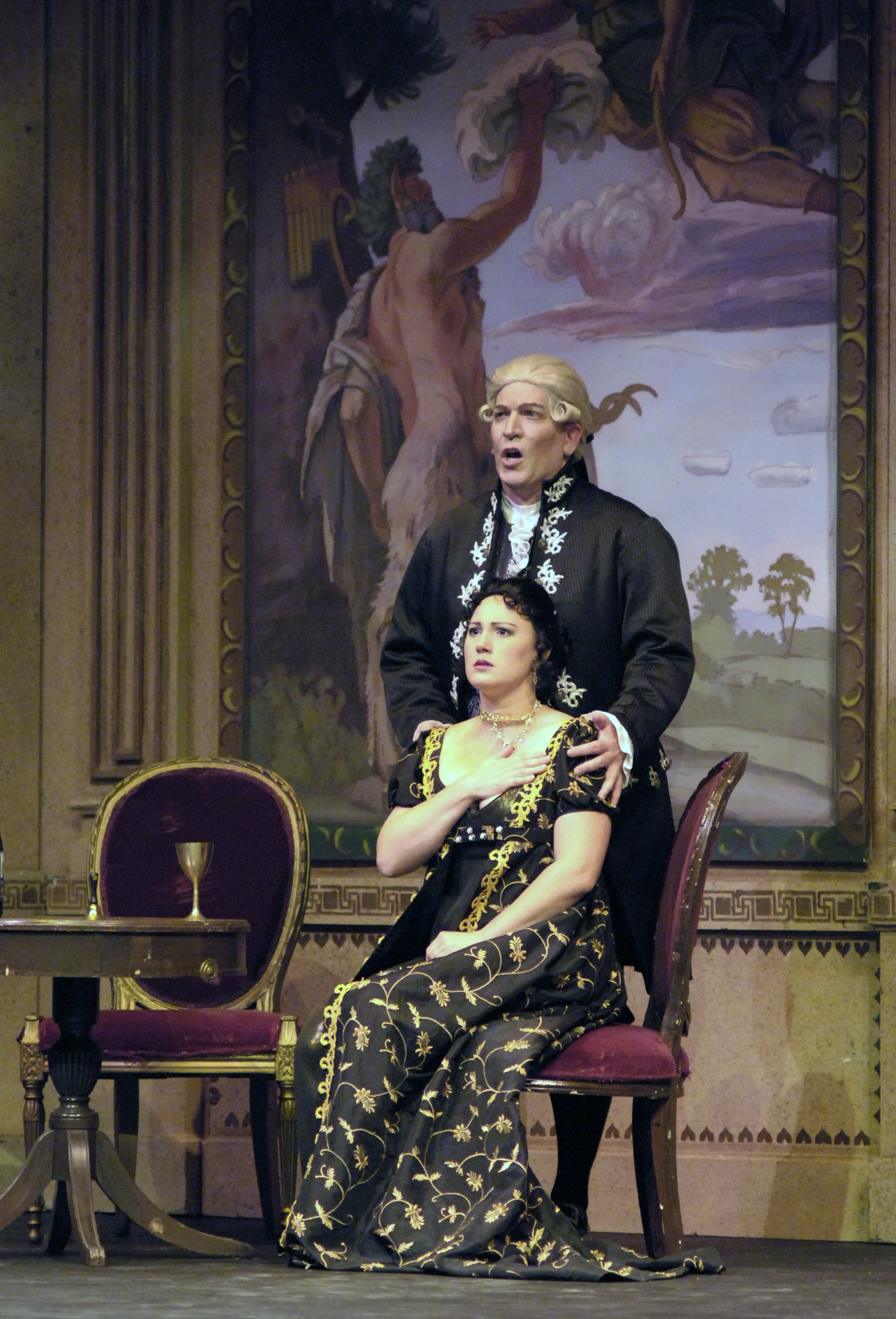 Performance photo of DuPage Opera Theatre doing Tosca